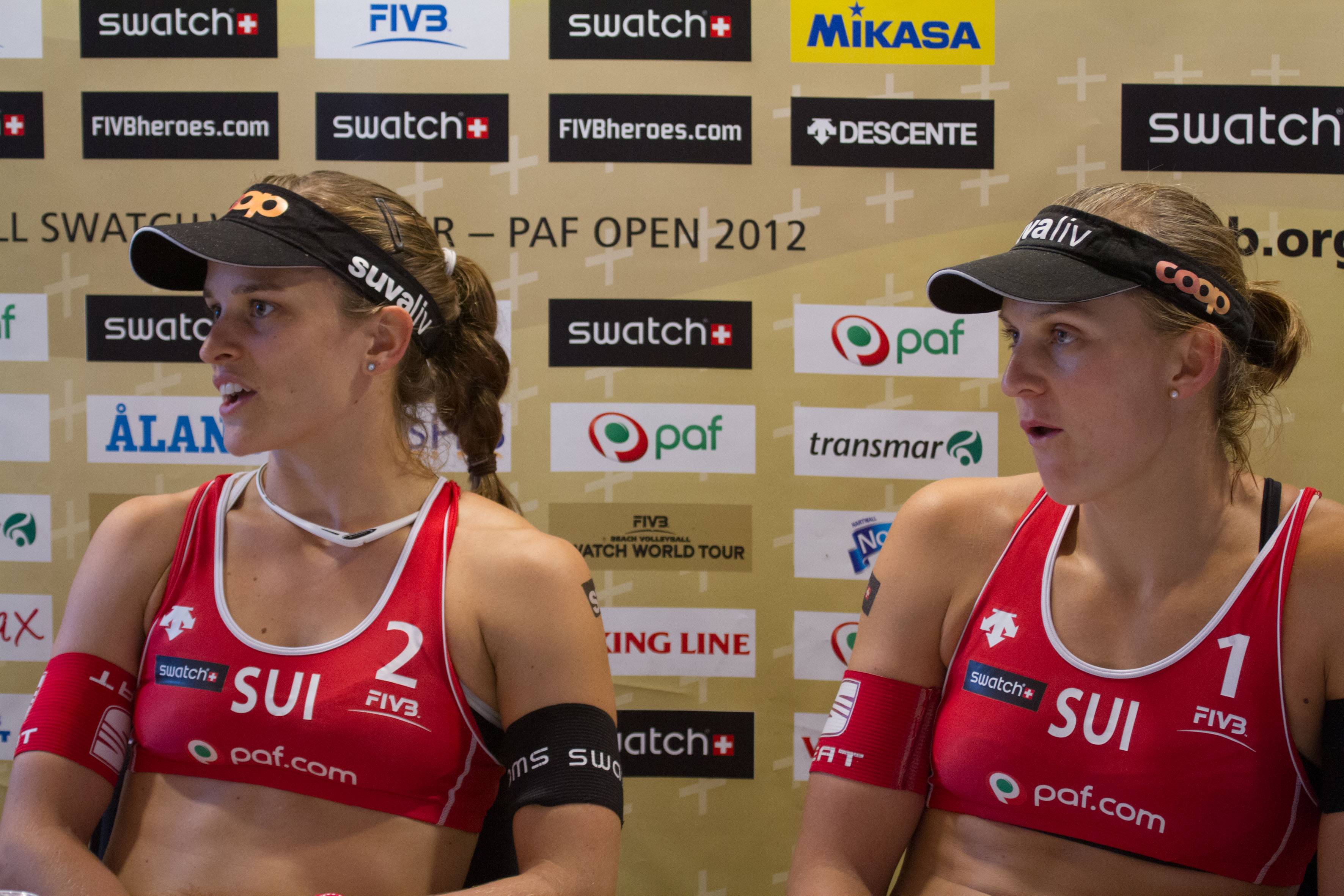 Kuhn (right) and Zumkehr (left) of Switzerland (red) on September 1 2012 at Paf Open in Mariehamn, Åland, Finland. Photograph: Rob Watkins/ This picture is free to use as long as it it credited: Rob Watkins/